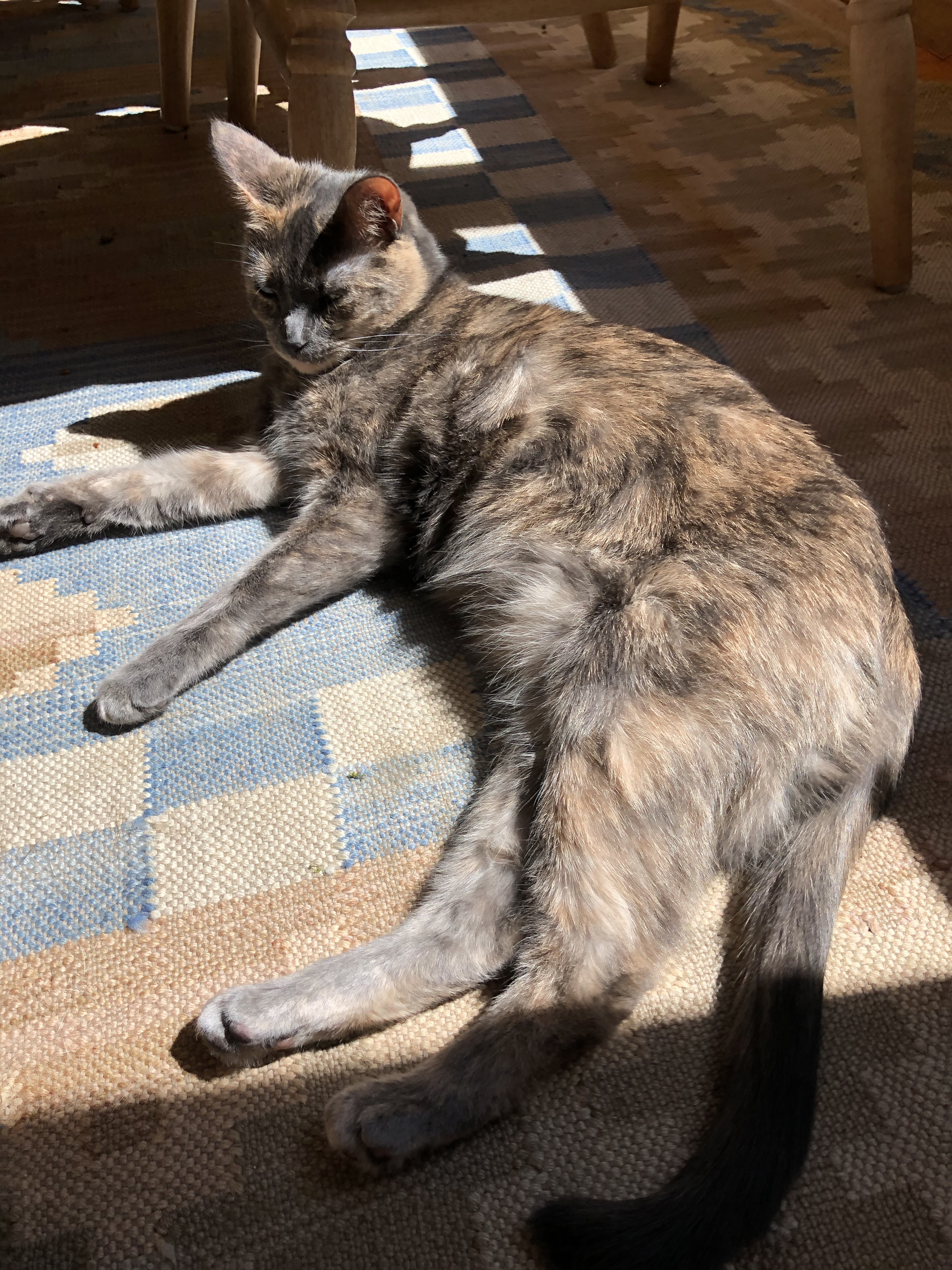 cat with a dilute tortoisesheel coat